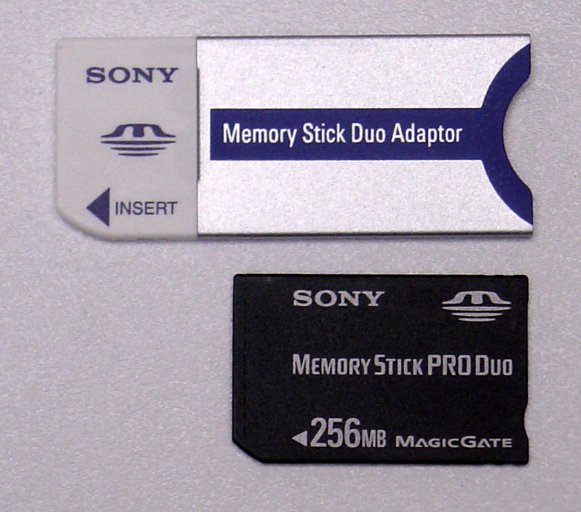 Memory Stick Duo Adaptor and Memory Stick PRO Duo. Photo by uploader.